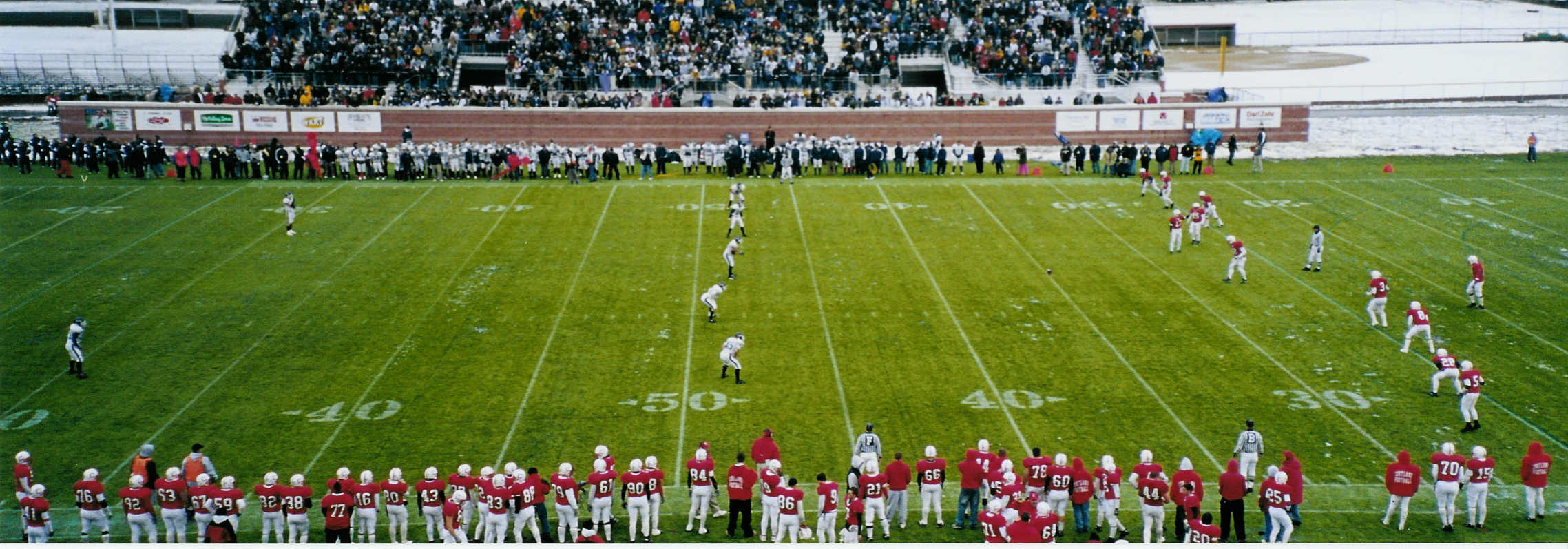 2002 Cortaca Jug game, the first ever at the new Cortland Athletic Complex